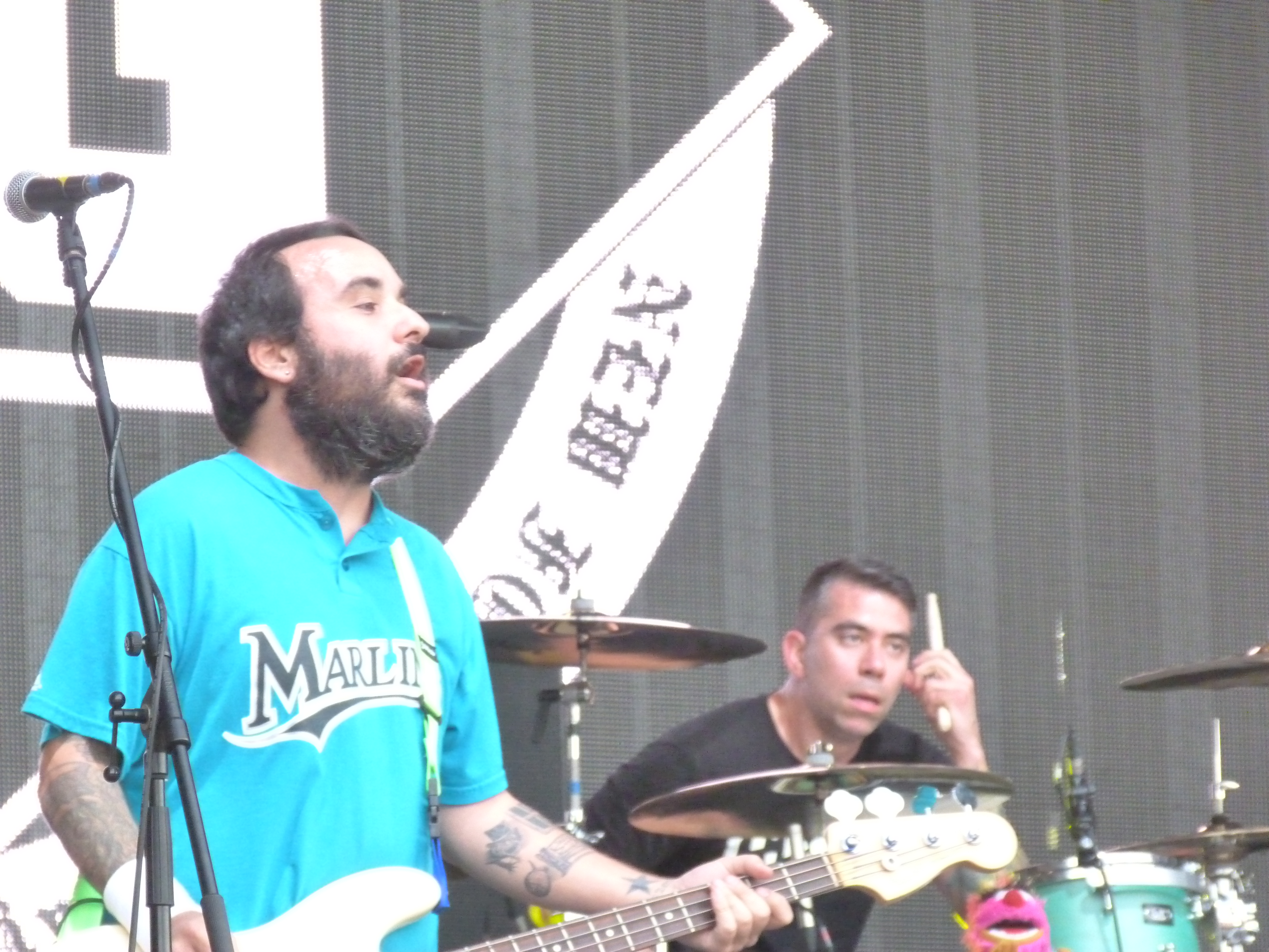 Live on the 19th of August, 2015. Zamárdi, Hungary. Strand Festival. New Found Glory (band).